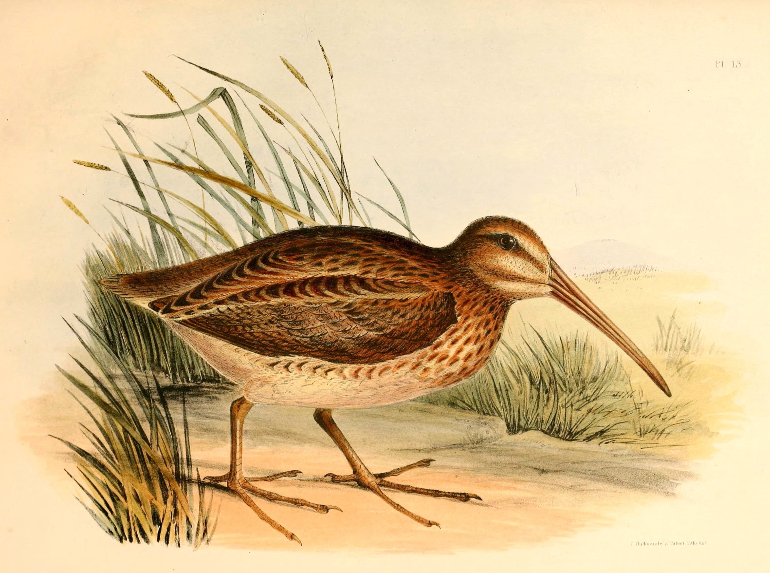 « Gallinago aucklandica » = Coenocorypha aucklandica (Subantarctic Snipe)